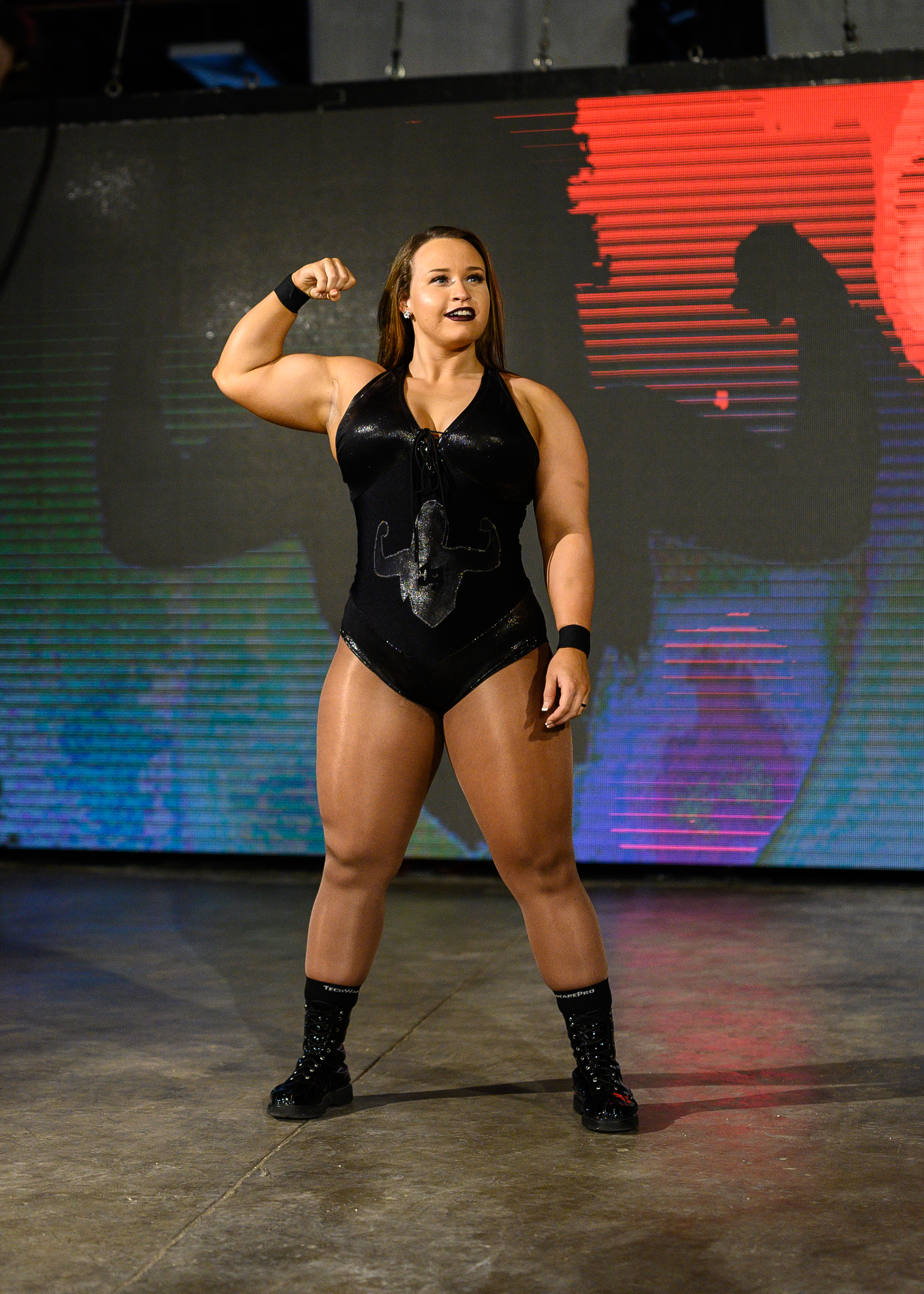 RCW & IMPACT Wrestling present Bash at the Brewery on July 5, 2019. Aired on IMPACT Twitch and IMPACT Plus from Freetail Brewery in San Antonio.